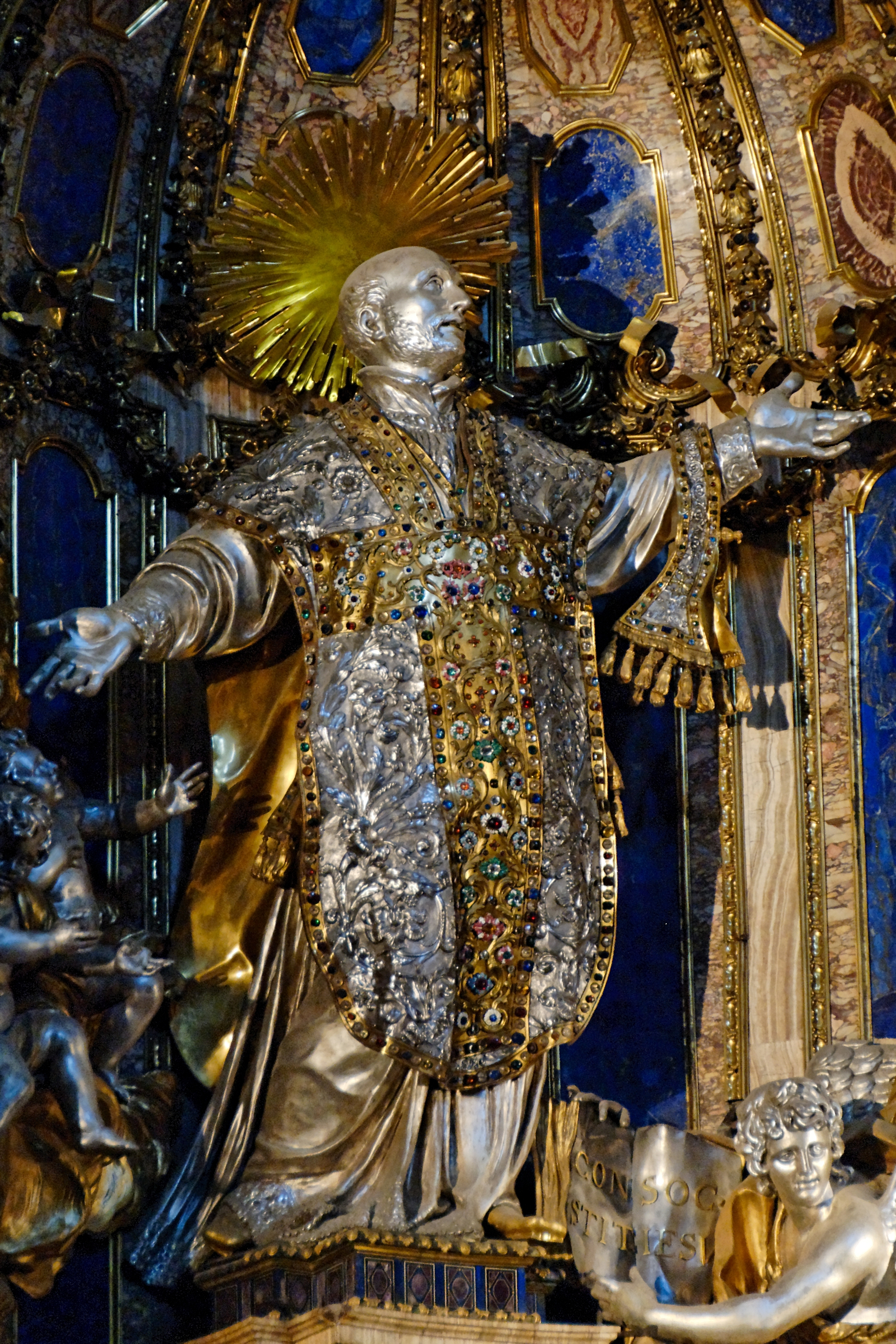 Statue of S. Ignatius by Pierre Le Gros, silver and copper alloy. Chapel S. Ignatius in the Gesù, Rome.